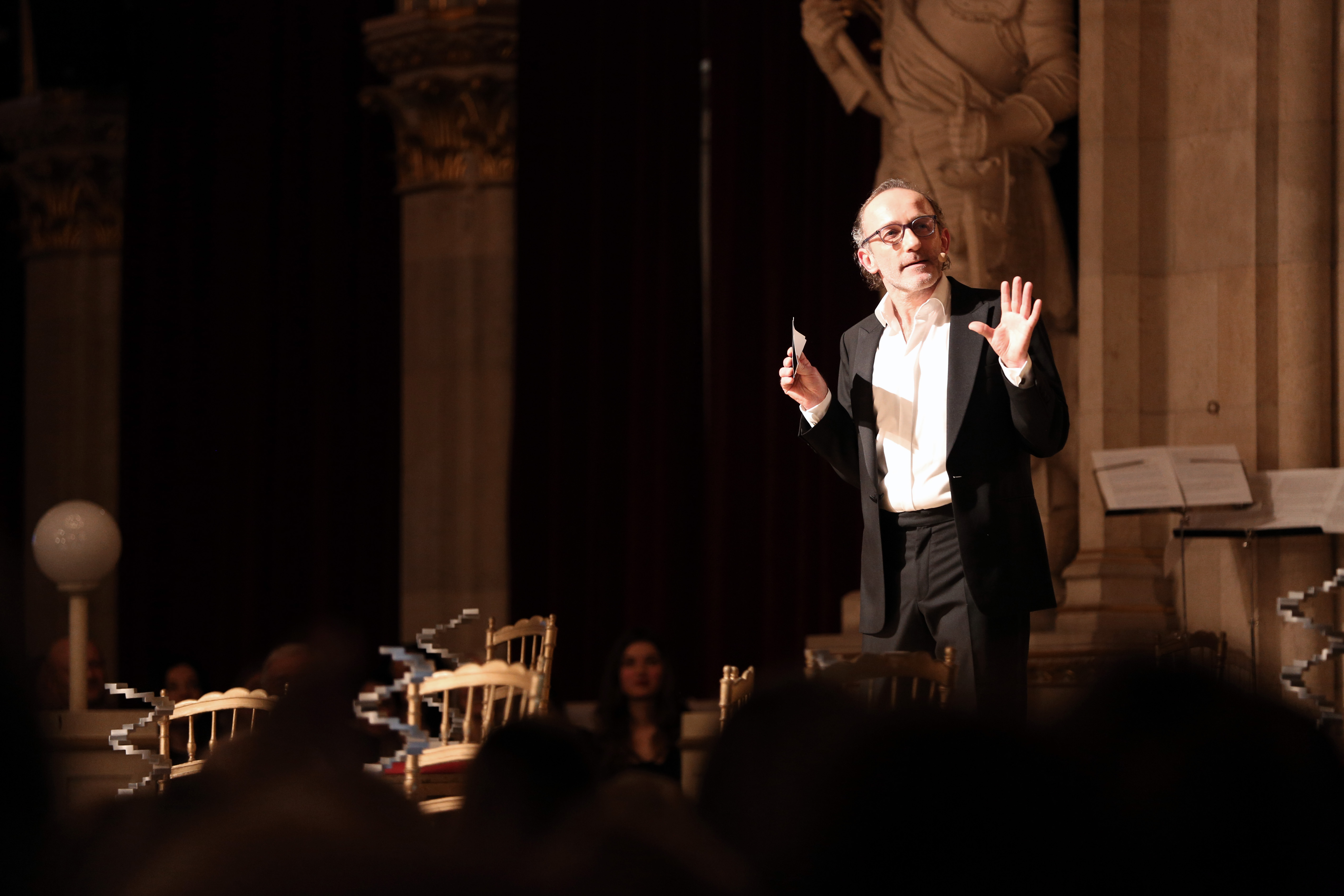 Karl Markovics presenting the Austrian Film Awards 2015 at Rathaus, Vienna,Austria.